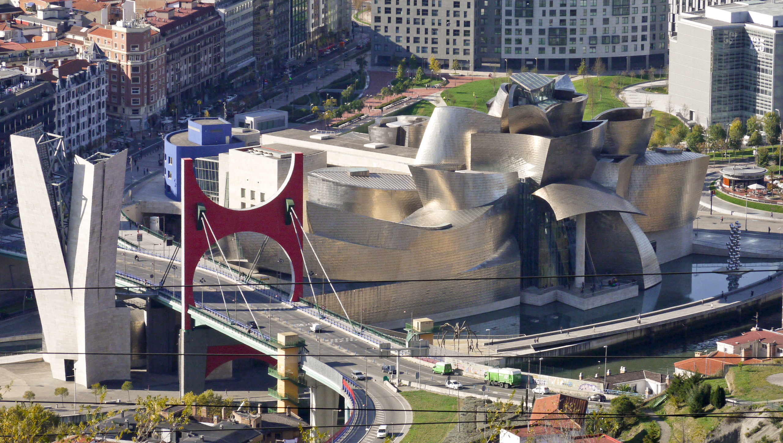 Museo Guggenheim Bilbao, distant view from Artxanda mountain, Bilbao, Spain